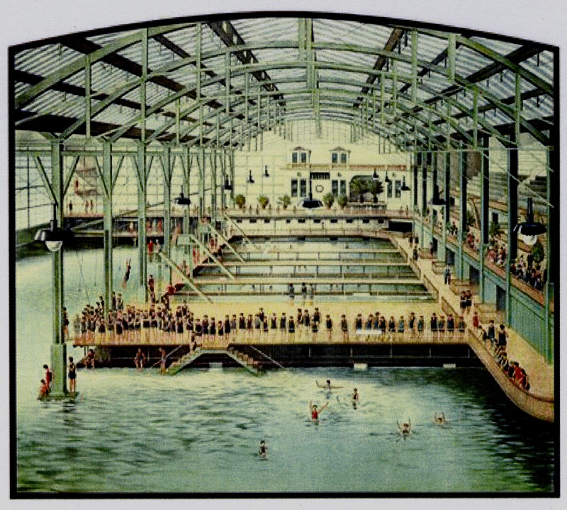 Sutro Baths poster circa 1894